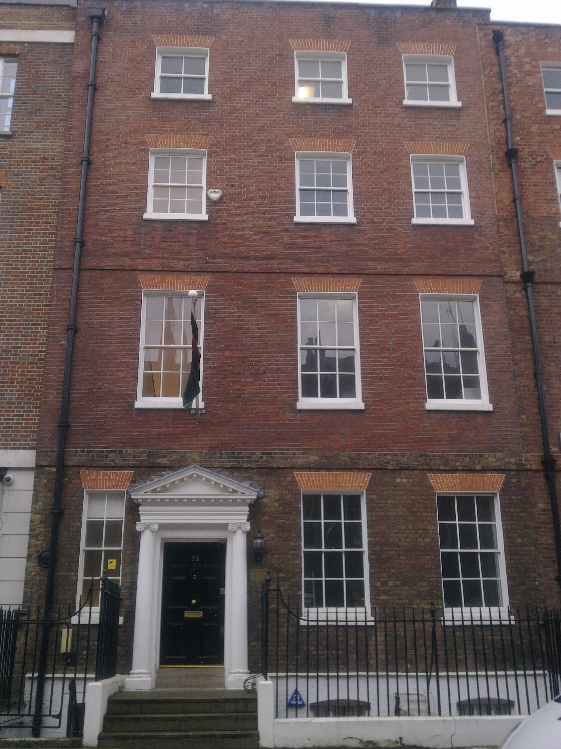 High Commission of Malawi in London 1